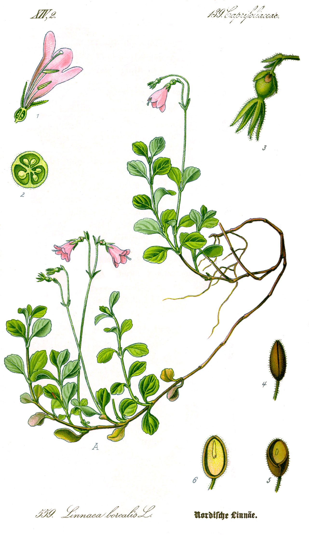 Linnaea borealis